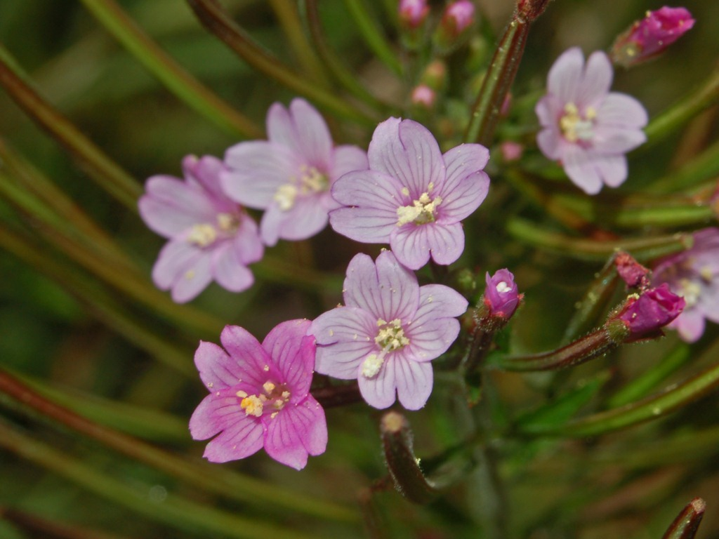 Epilobium parviflorum - Parco dell'Aveto, Genova, Italy